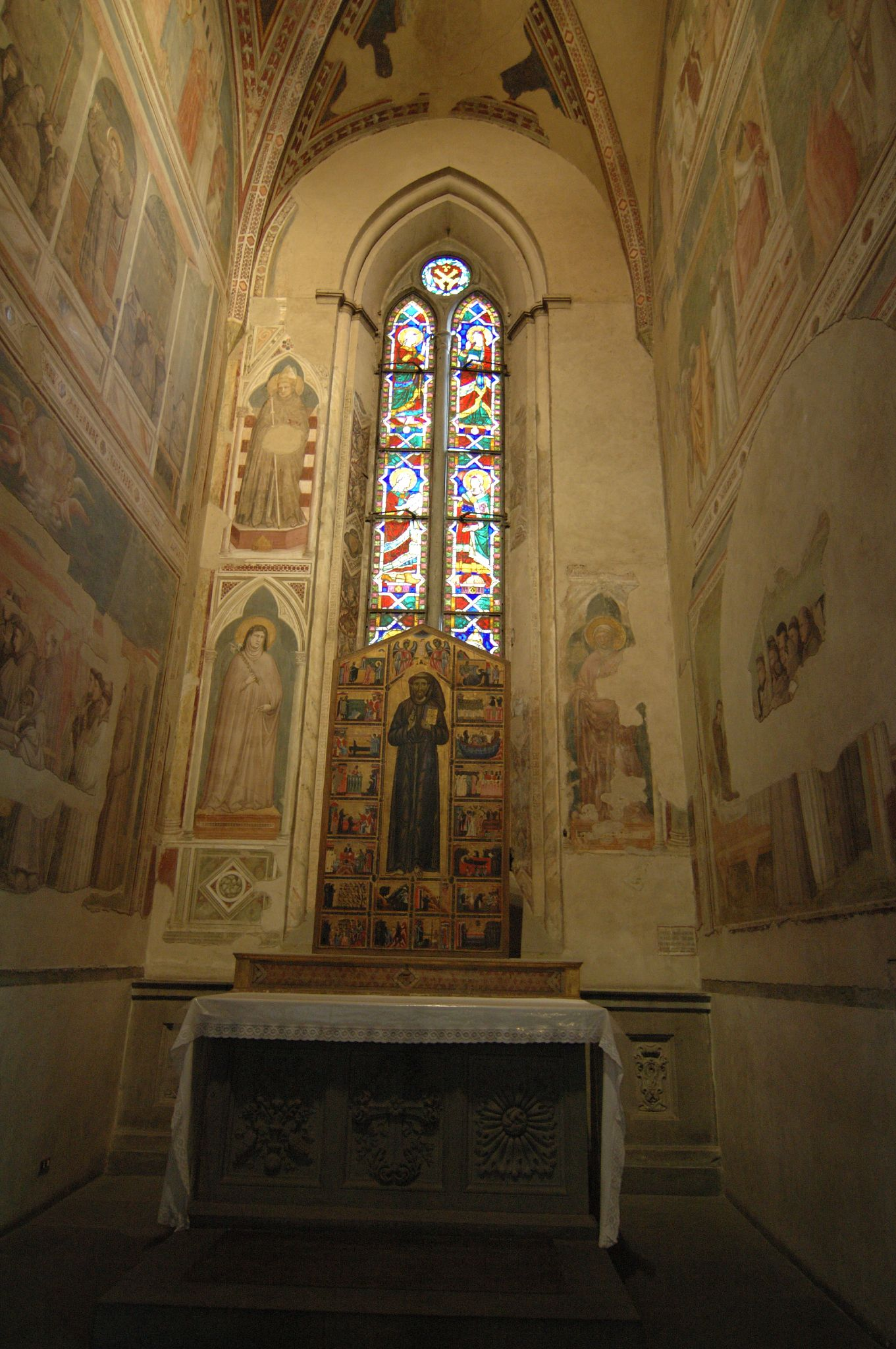 see abovesee above